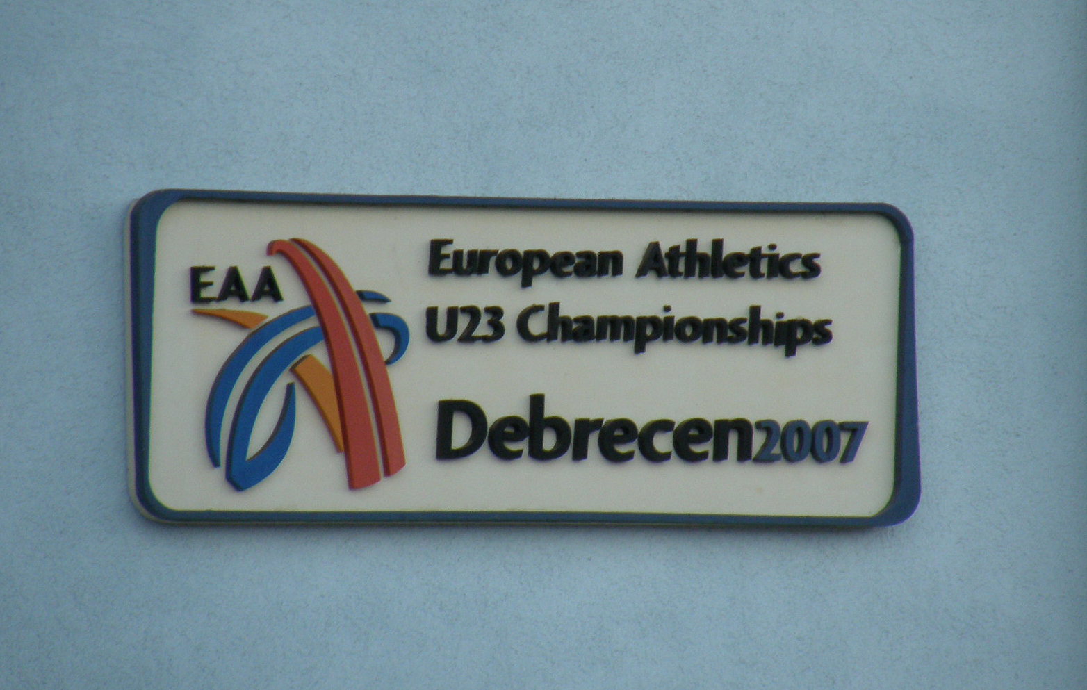 2007 European Athletics U23 Championships, Debrecen - Hungary